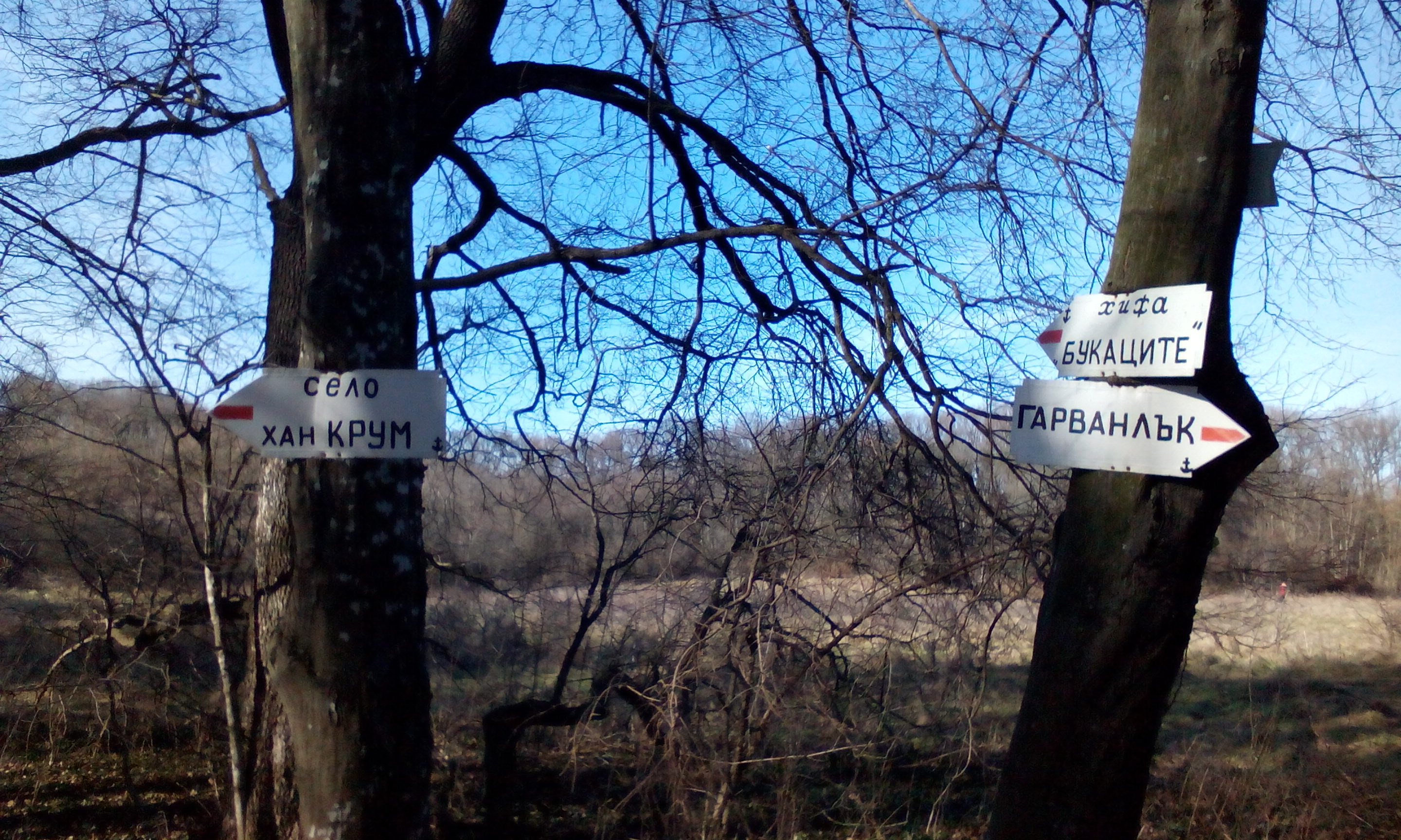 Shumen Plateau